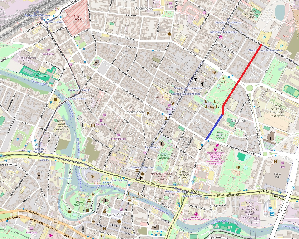 Laid down map